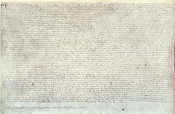 The Magna Carta (originally known as the Charter of Liberties) of 1215, written in iron gall ink on parchment in medieval Latin, using standard abbreviations of the period, authenticated with the Great Seal of King John. The original wax seal was lost over the centuries.[1] This document is held at the British Library and is identified as "British Library Cotton MS Augustus II.106".[2]